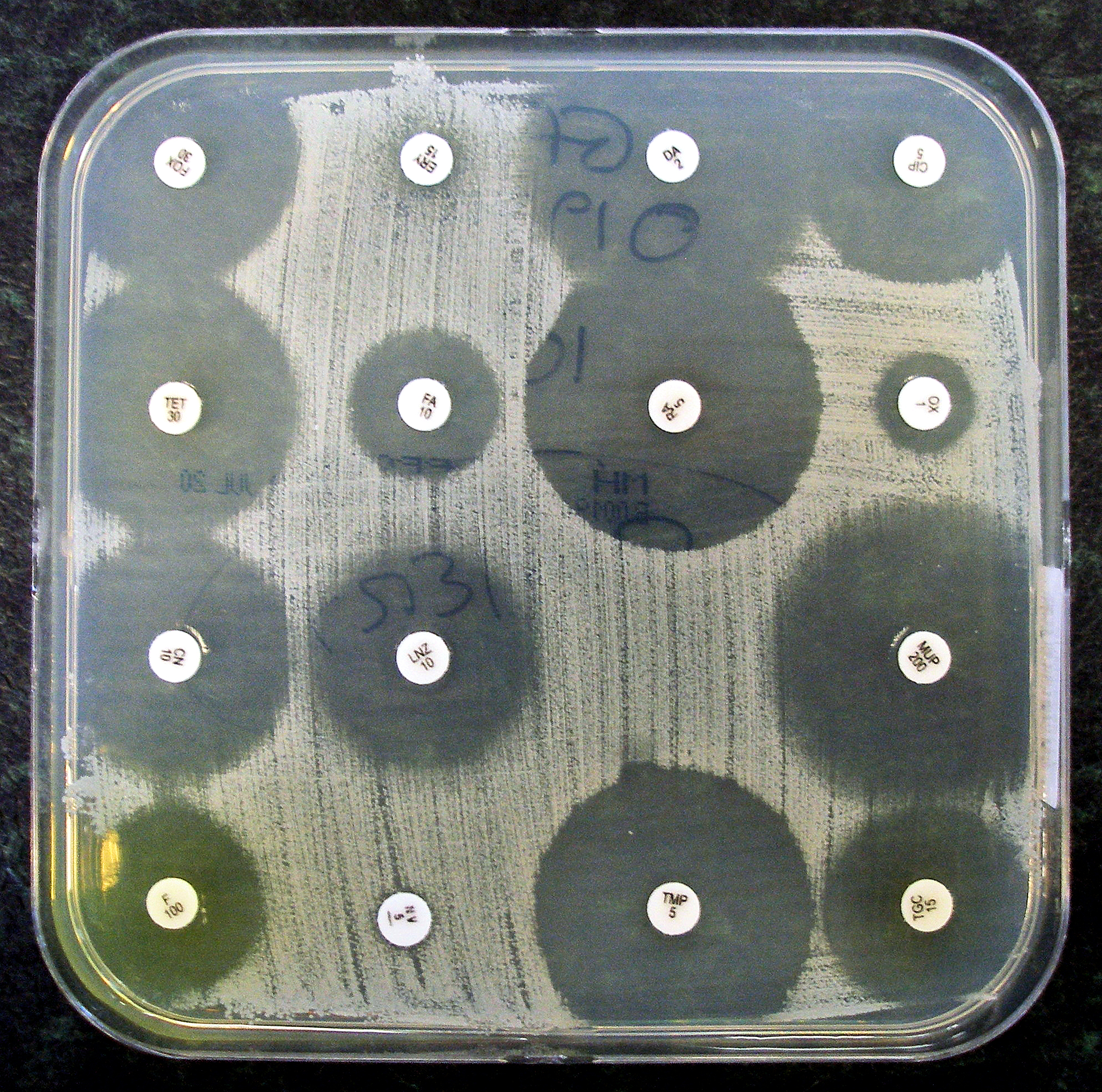 Staphylococcus aureus growing on a nutrient agar. The discs contain an antibiotic. The bacterium is completely resistant to three of the antibiotics. The zones around the discs are where the bacteria have not grown because they are sensitive to the antibiotic in each of the discs of filter paper.